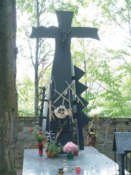 Grave of Władysław Hasior, photo by Jadwiga